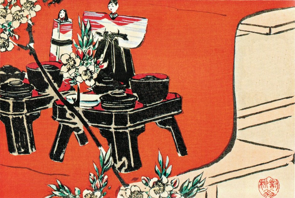 Girls' Festival, woodblock print by Shibata Zeshin, c. 1888, Honolulu Museum of Art, accession 27601.05